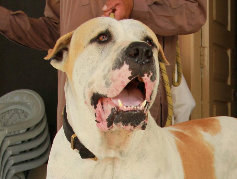 Bully Kutta Nolakhia